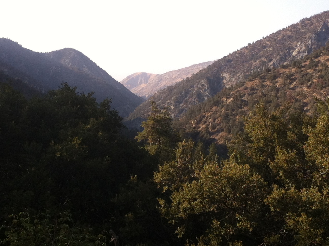 San Emigdio Creek canyon in southwestern Kern County, California.